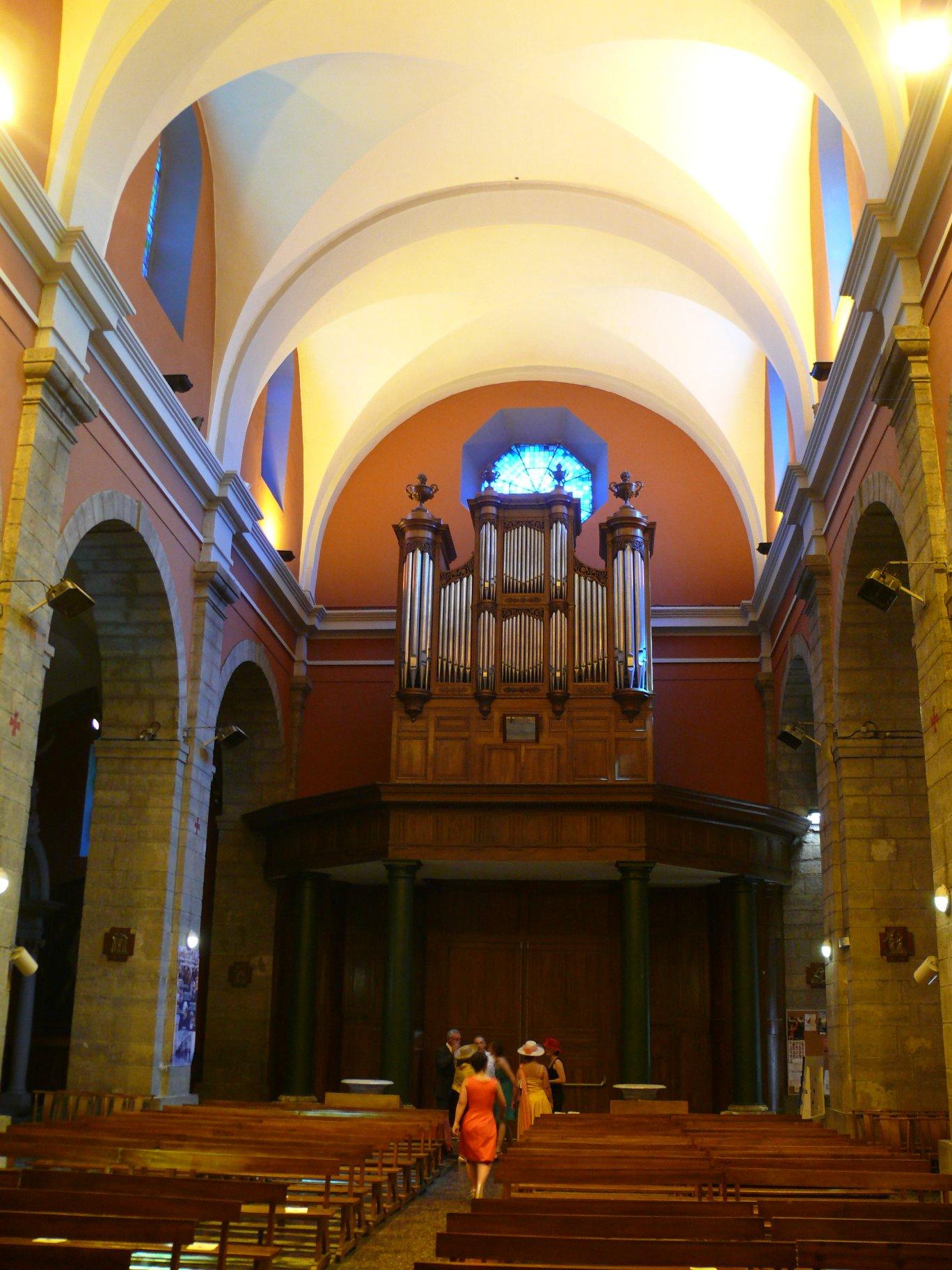 Saint-John-the-Baptist's church of Solliès-Pont (Var, Provence-Alpes-Côte-d'Azur, France).